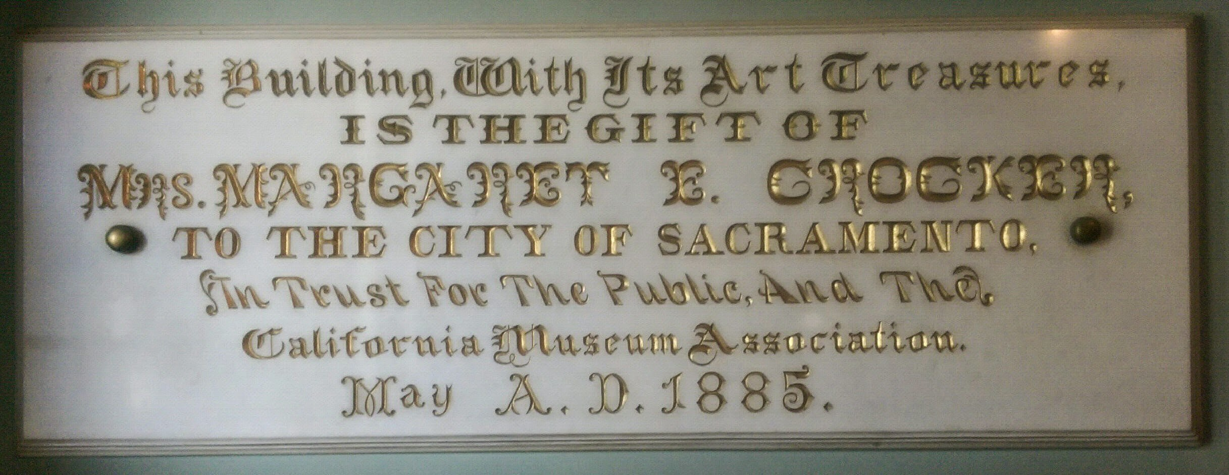 A marble plaque from 1885 commemorating the gift of the Crocker Art Museum. Photo by Jim Heaphy.